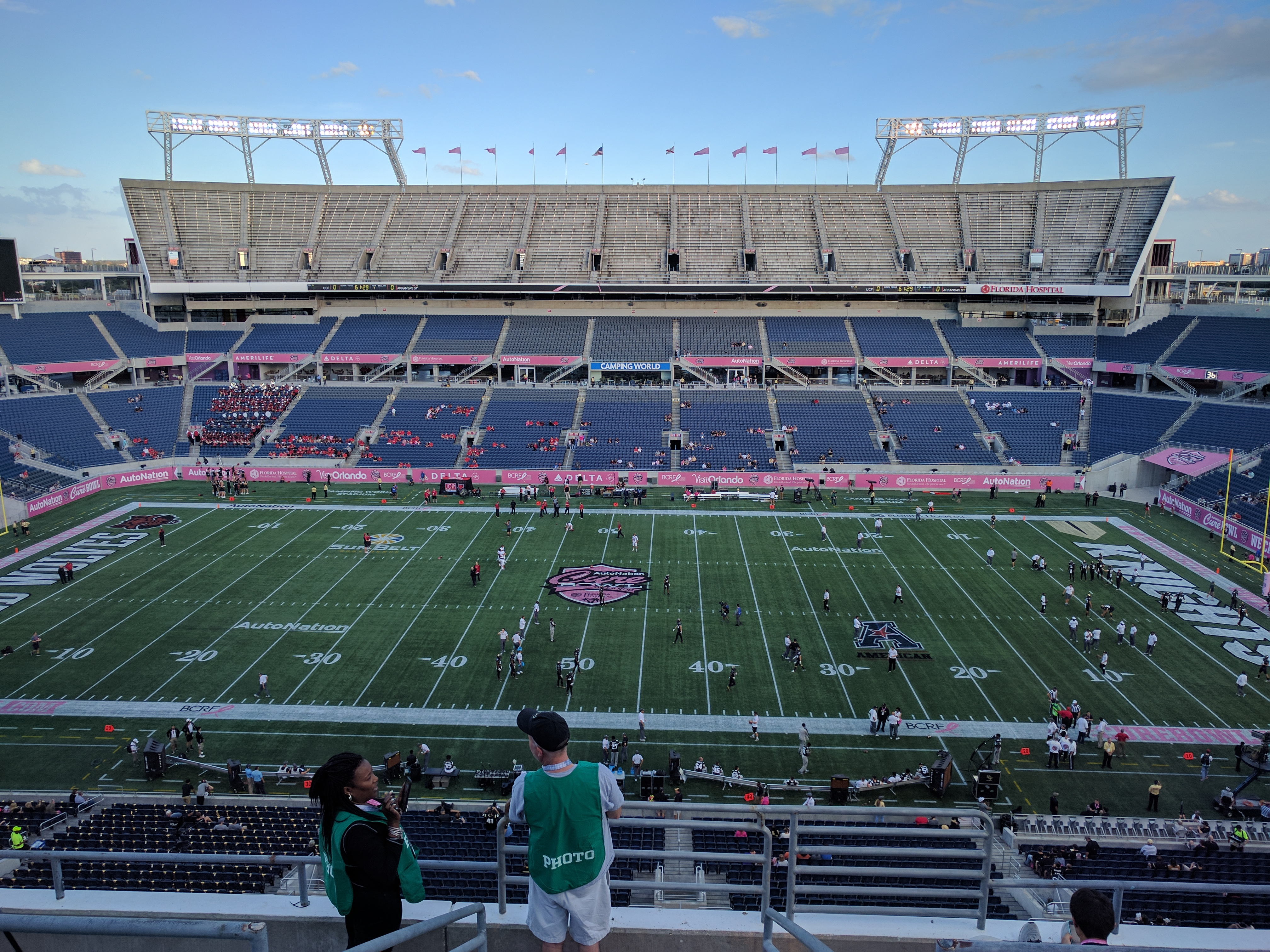 Upper Deck view of the field